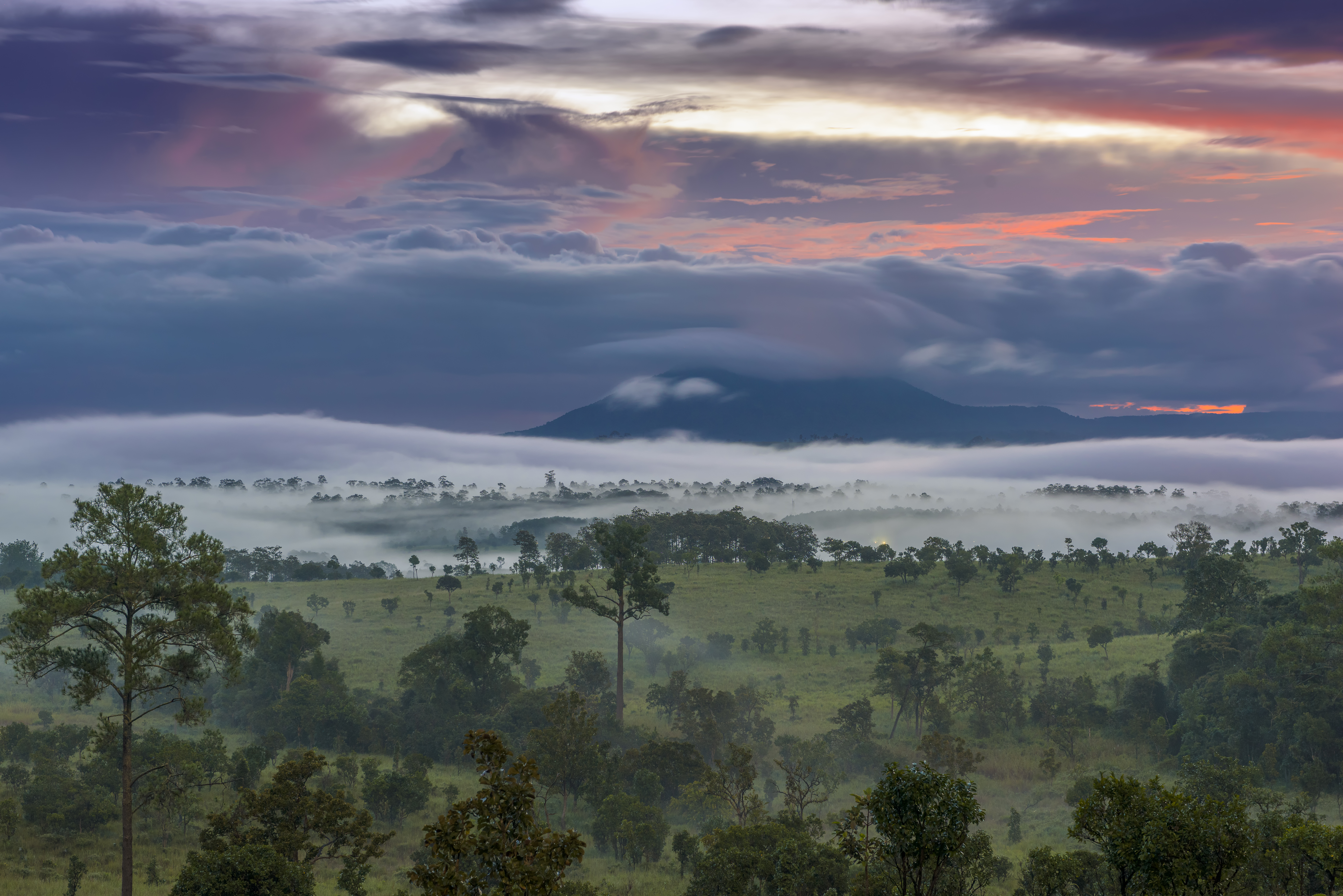 Foggy morning at Thung Salaeng Luang National Park